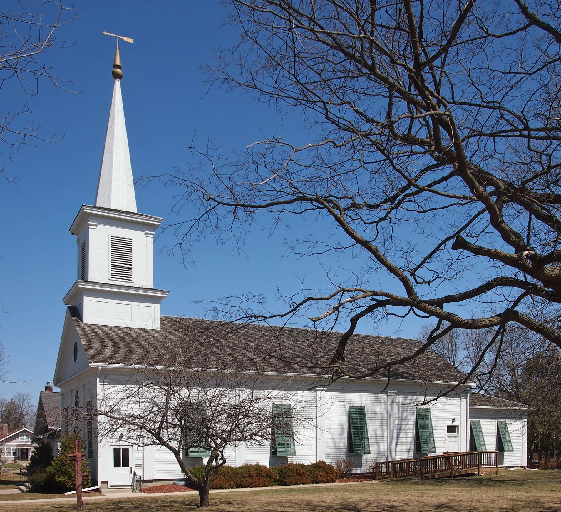 First Congregational Church of Zumbrota, 455 East Avenue, Zumbrota, Minnesota, United States, viewed from the south-southwest.